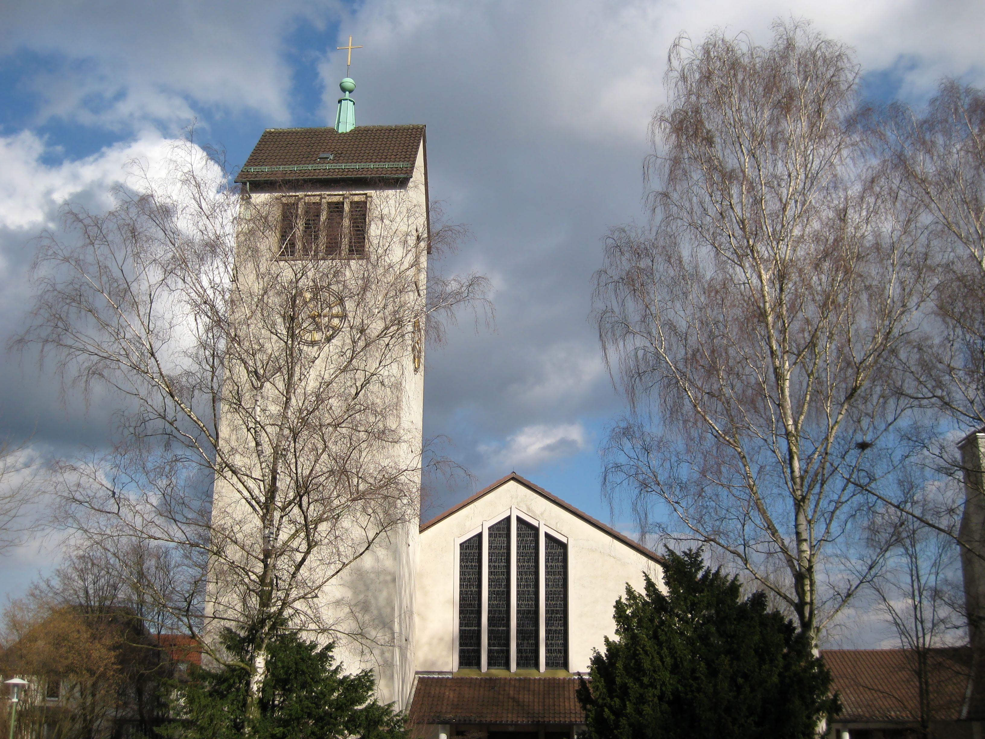 lutheran parish church Petrikirche in Bielefeld-Mitte